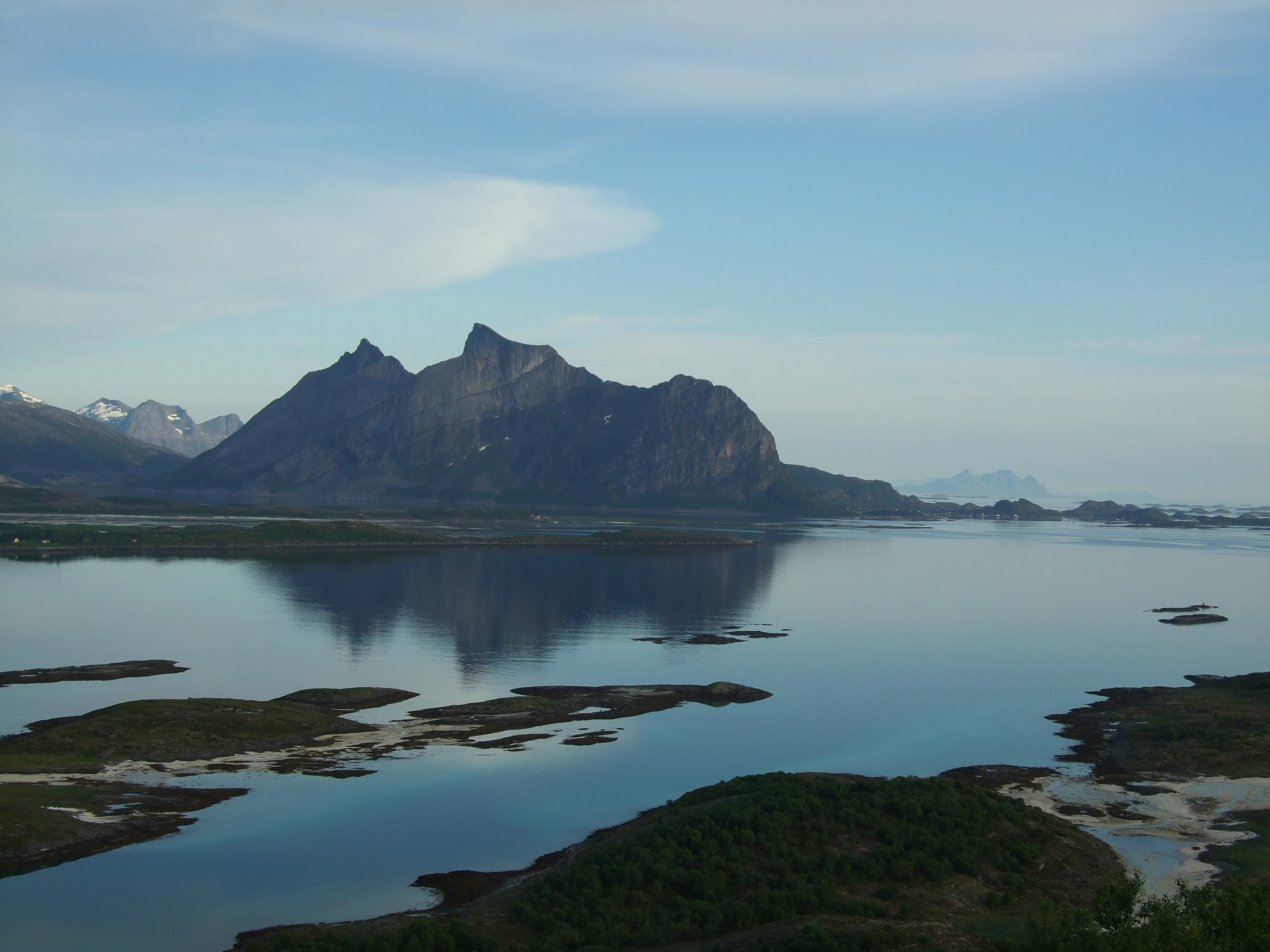 Mountains Skotstindan in Steigen seen from Løvøykollen. In the far background the island of Landegode just outside of Bodø.